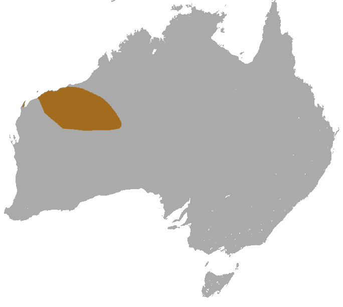 Rory Cooper's False Antechinus (Pseudantechinus roryi) range